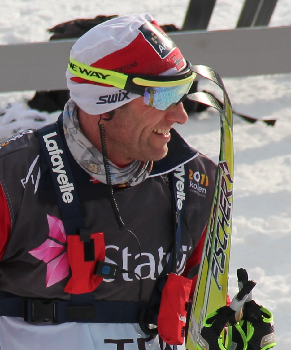 Odd-Bjørn Hjelmeset at the FIS Nordic World Ski Championships in Oslo